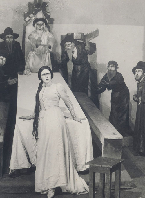 A photo of The Dybbuk, 1922.